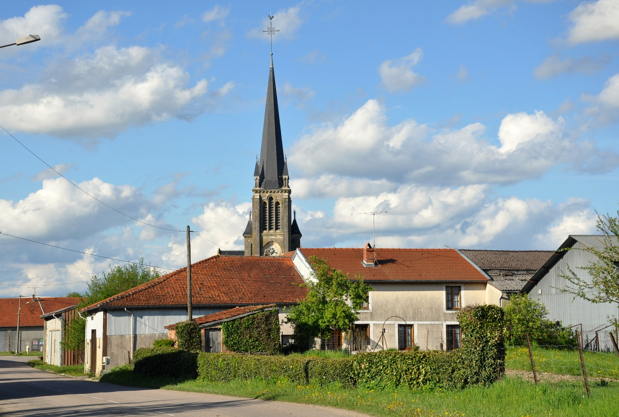 The village of Waly, seen from the Triaucourt Road (canton Seuil-d'Argonne, arrondissement Bar-le-Duc, Meuse departement, Lorraine region, France).